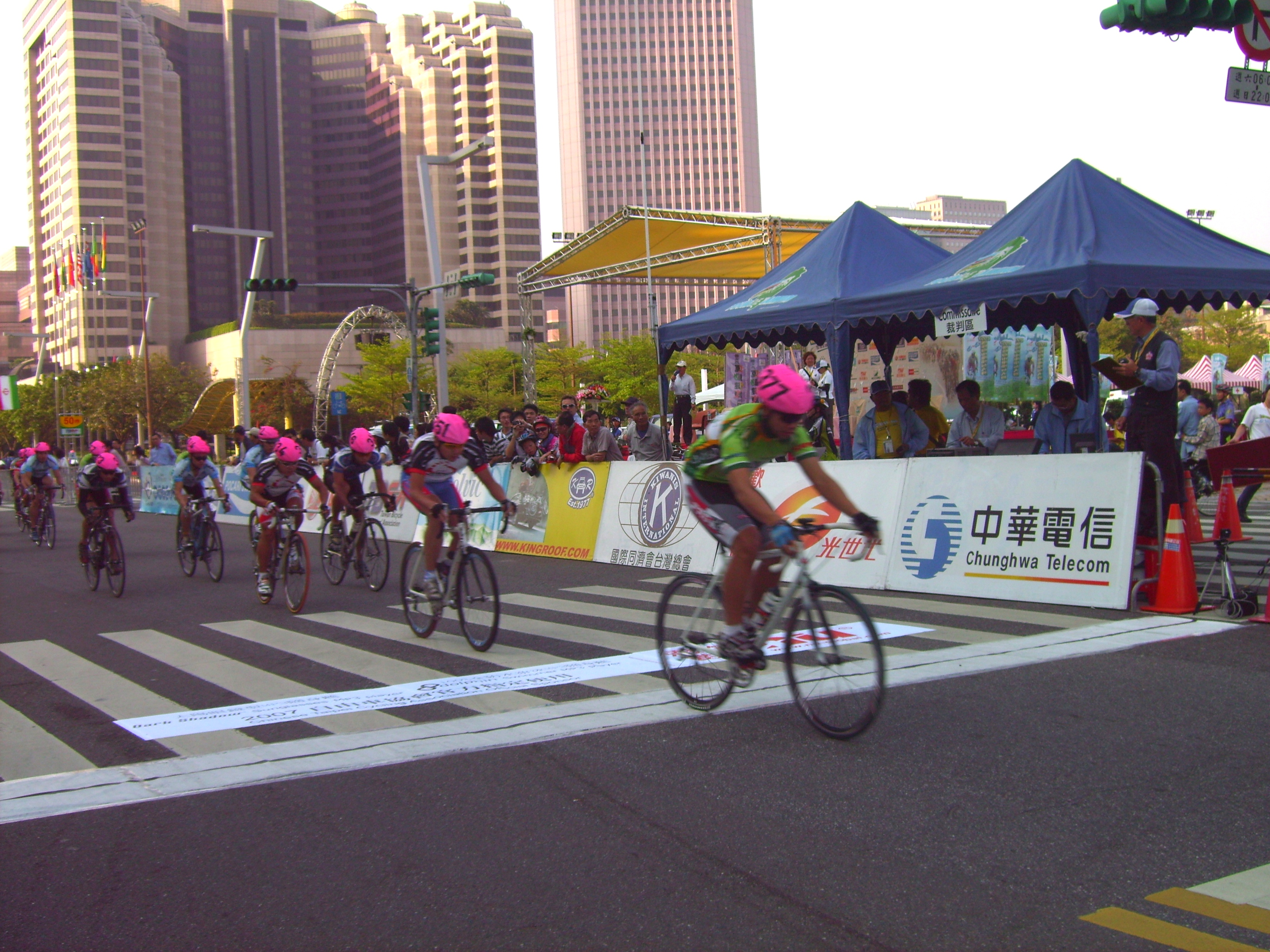 The 2nd Taipei Citizen Elimination Road Race: Leading group in men's 15+ and 30+ ages groups.